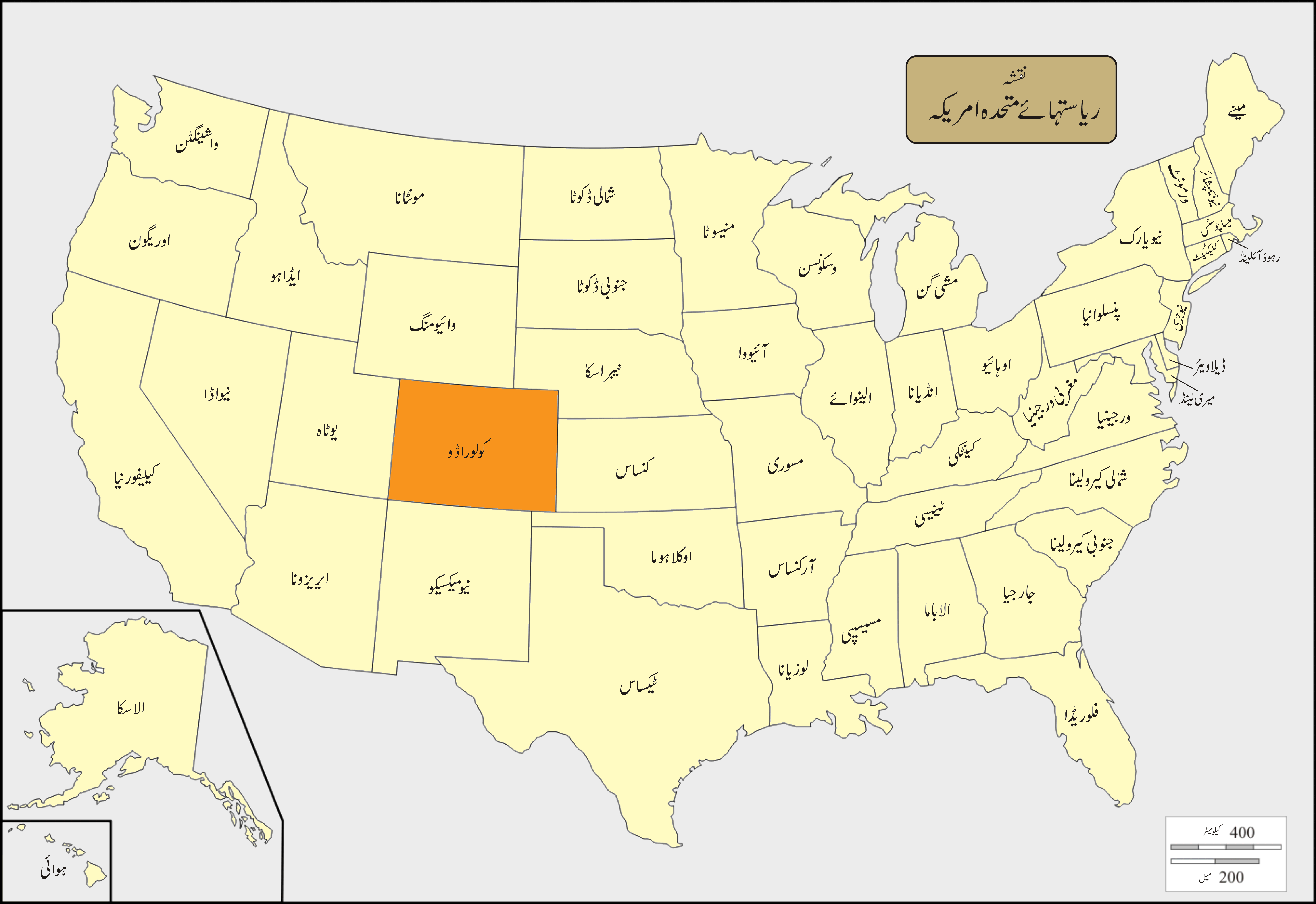 USA Names Colorado